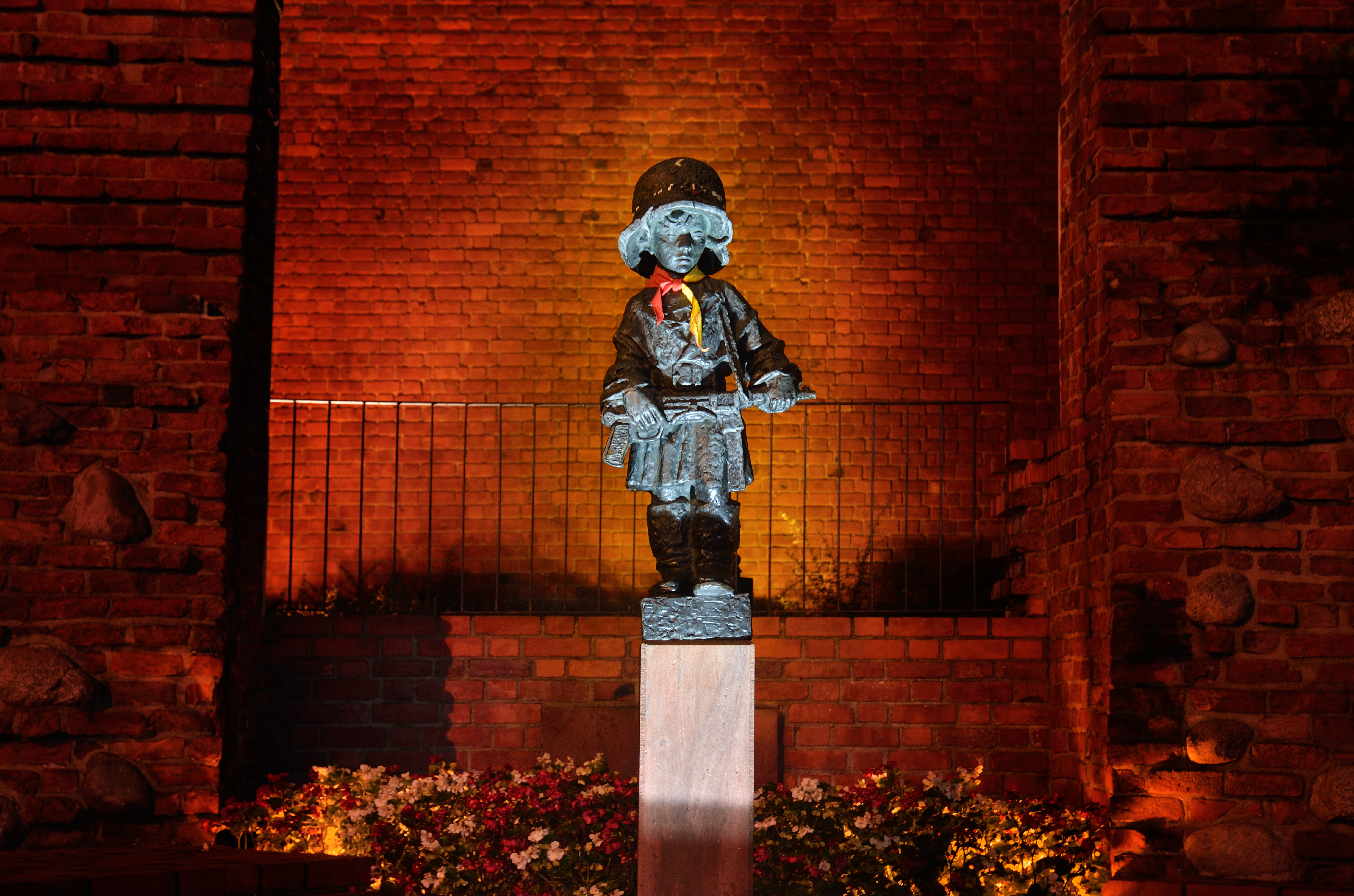 Wiki Monuments